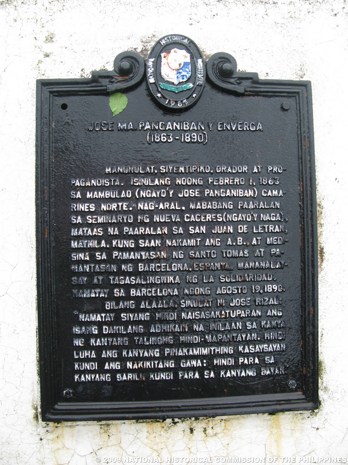 NHCP historical marker for Jose Ma. Panganiban